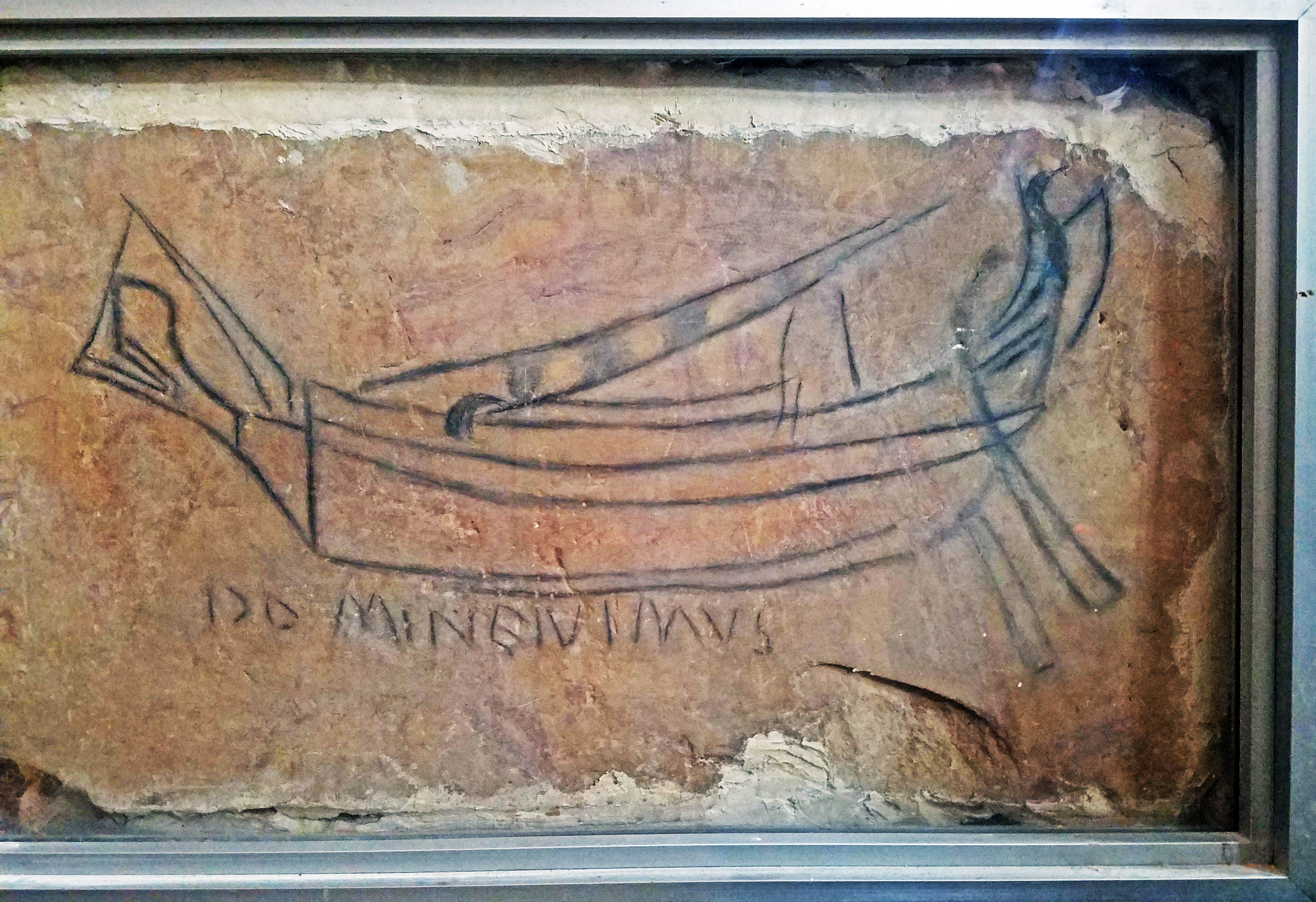 chapel of st. Vartan and armeanian martyrum, photo of a ship and inscription -"DOMINE IVIMVS" (Lord, we have gone). The ship drawing was discovered in November 1971 on the side of one of the Hadrianic walls.